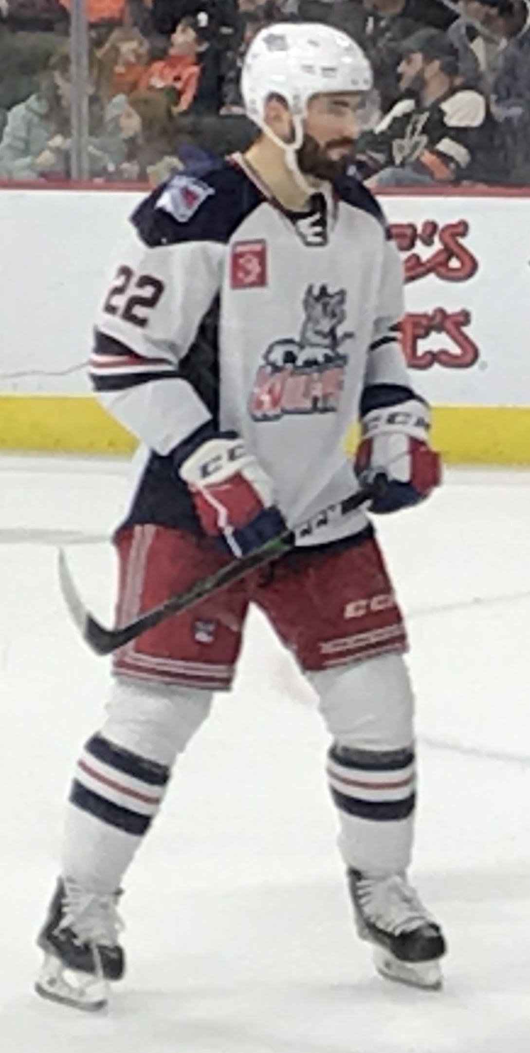 Nick Ebert with the Hartford Wolf Pack ice hockey team, at the PPL Center in Allentown, Pennsylvania, on December 14, 2019.